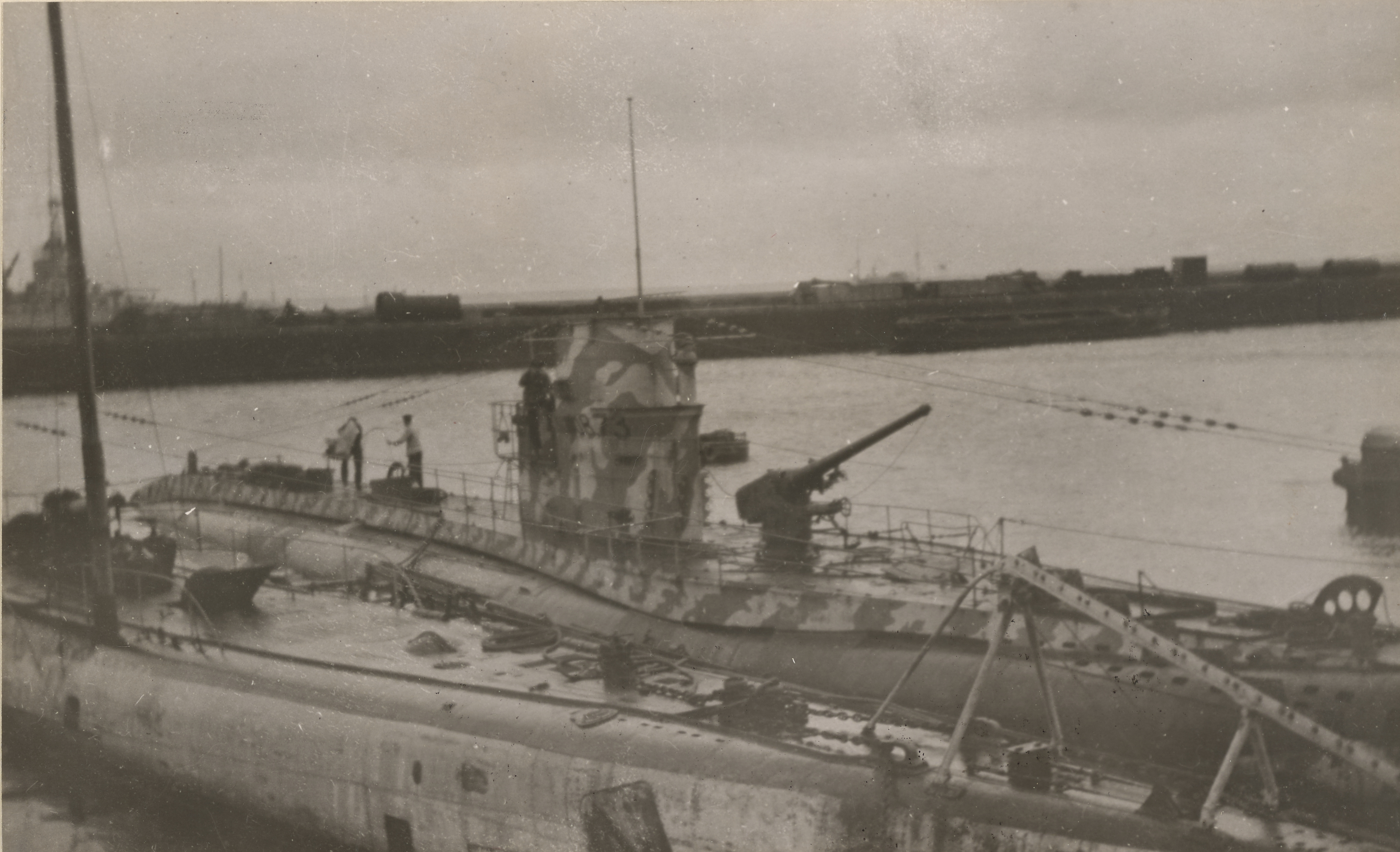 Scope and content: Photographer: Western Newspaper Union